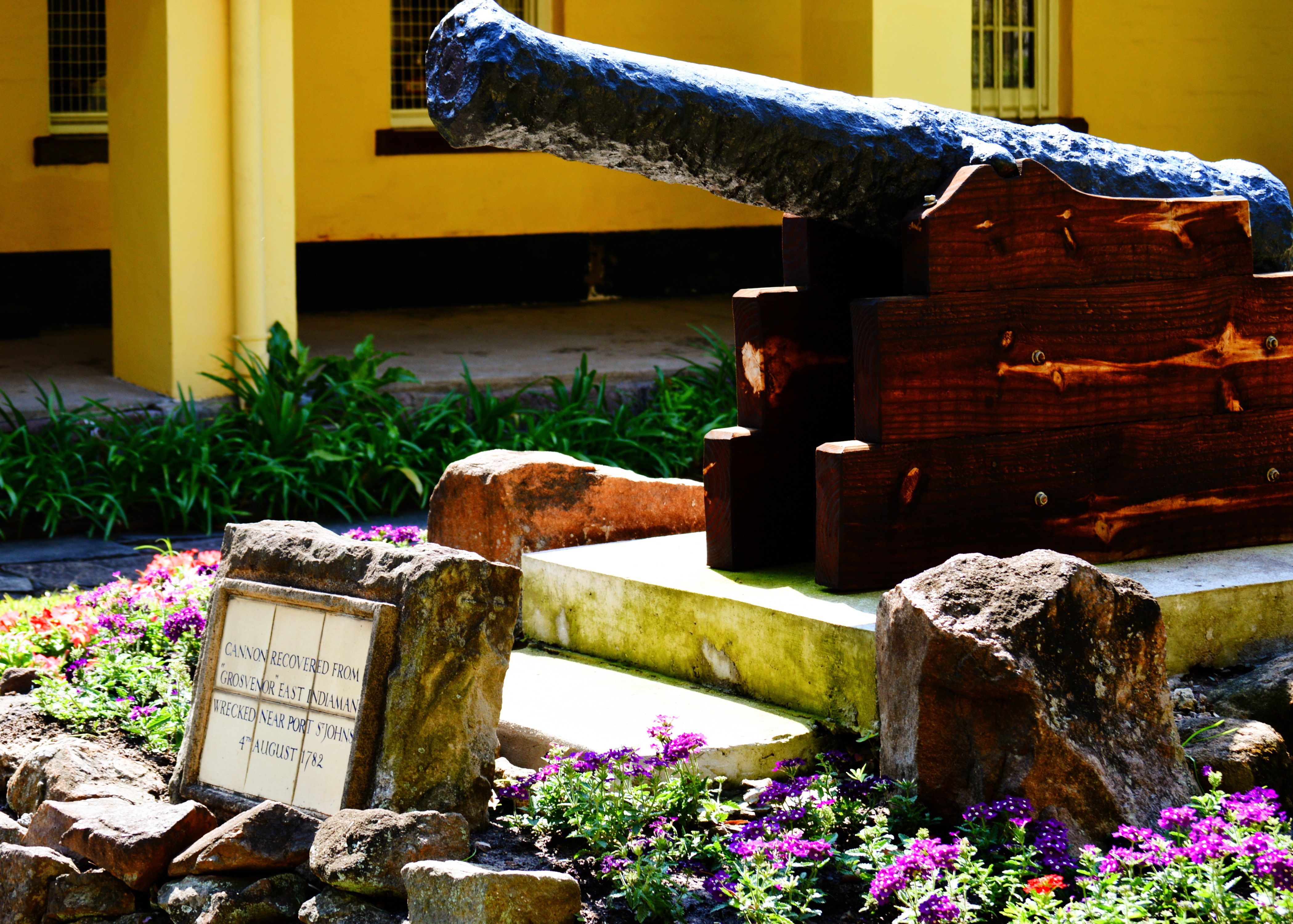 Old Fort, Durban This media shows a South African Protected Site with SAHRA file reference 9/2/407/0028.